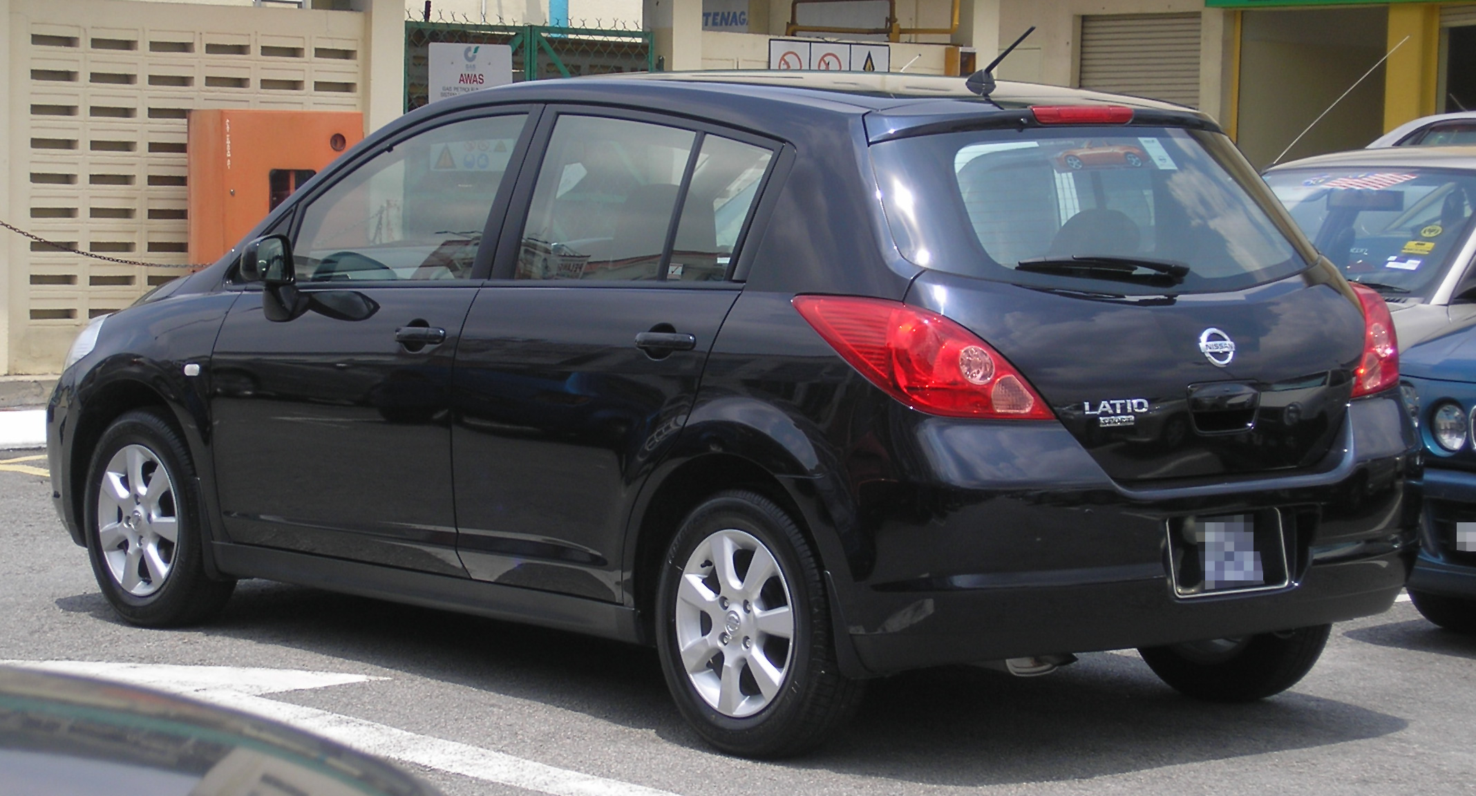 Rear quarter view of a first generation Nissan Latio hatchback (Sport), in Serdang, Selangor, Malaysia.